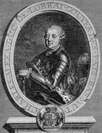 Prince Charles Alexander of Lorraine 1712-1780, son of Duke Leopold I. Joseph of Lorraine and Princess Charlotte Elisabeth of France (daughter of Elisabeth Charlotte, Princess Palatine, and Duke Philipp I. of Orléans), husband of Archduchess Maria Anna of Austria